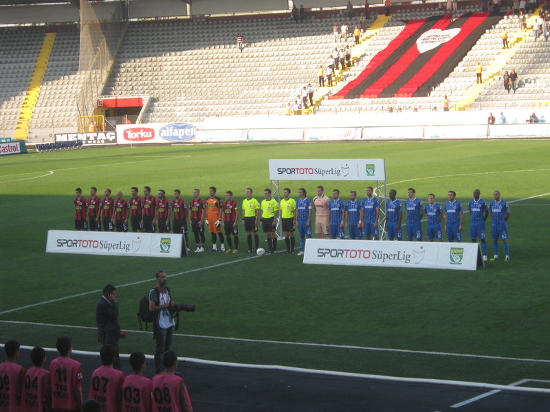 Turkish Super League match: Gençlerbirliği 2-1 Karabükspor